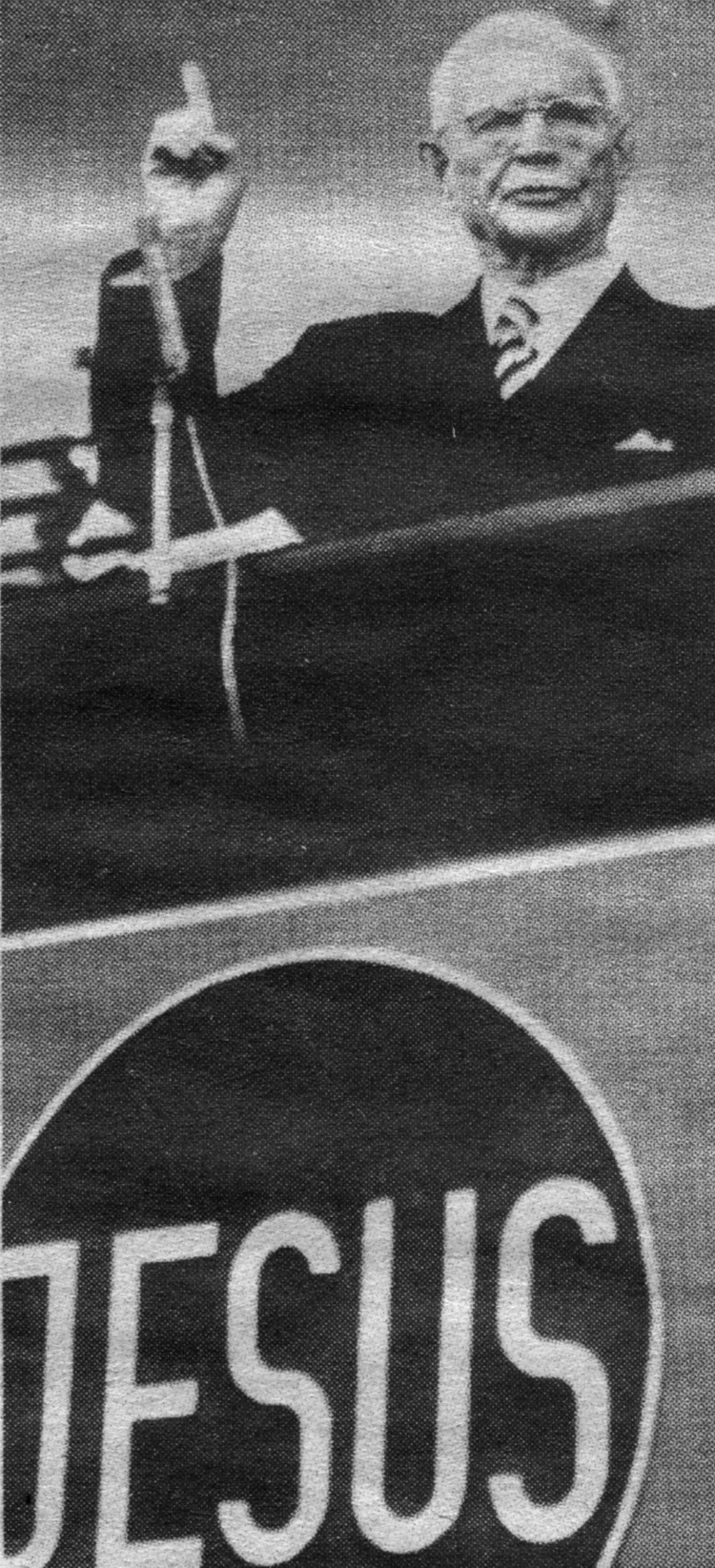 Lewi Pethrus.